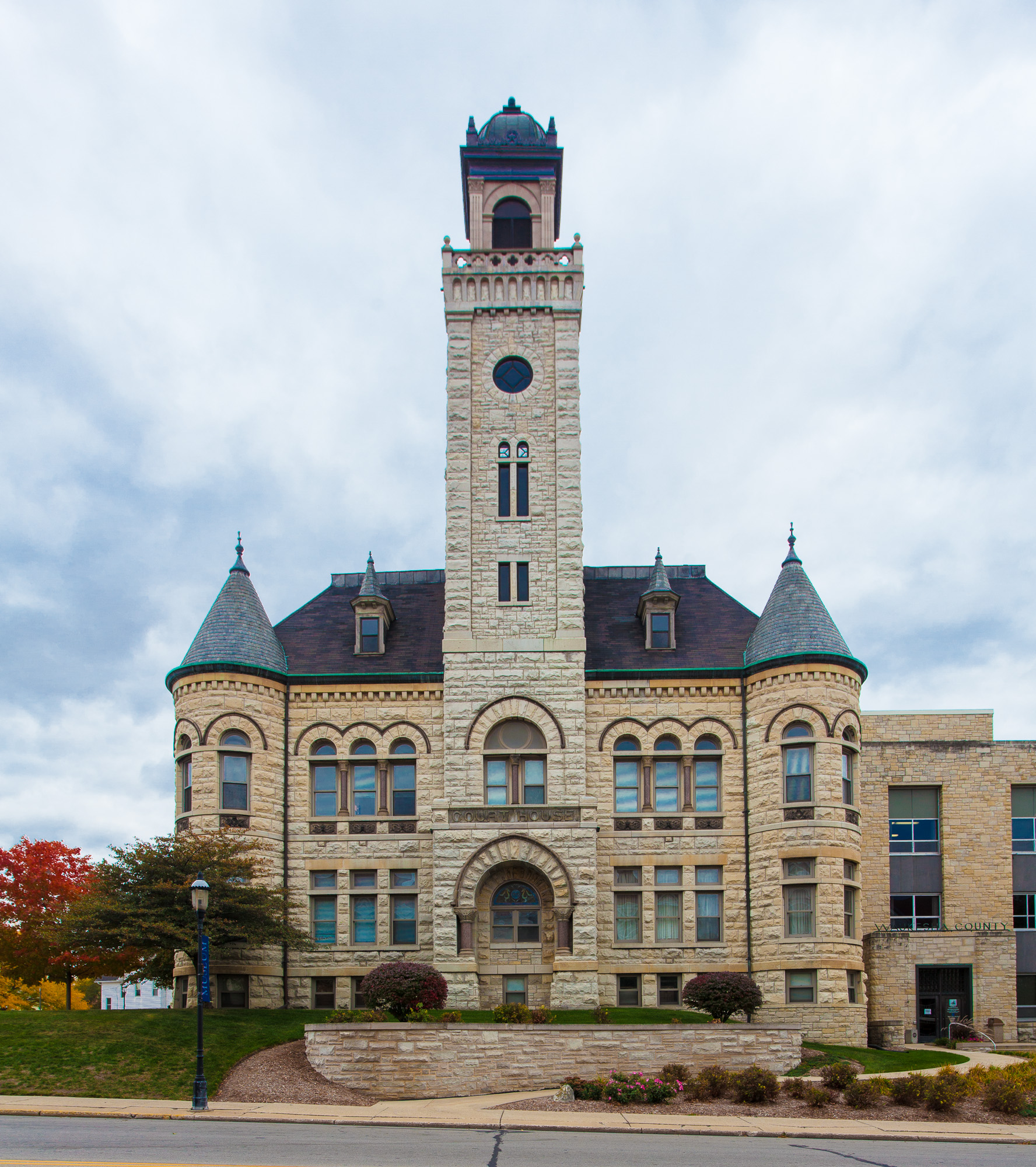 Old Waukesha County Courthouse, 101 W. Main St. Waukesha